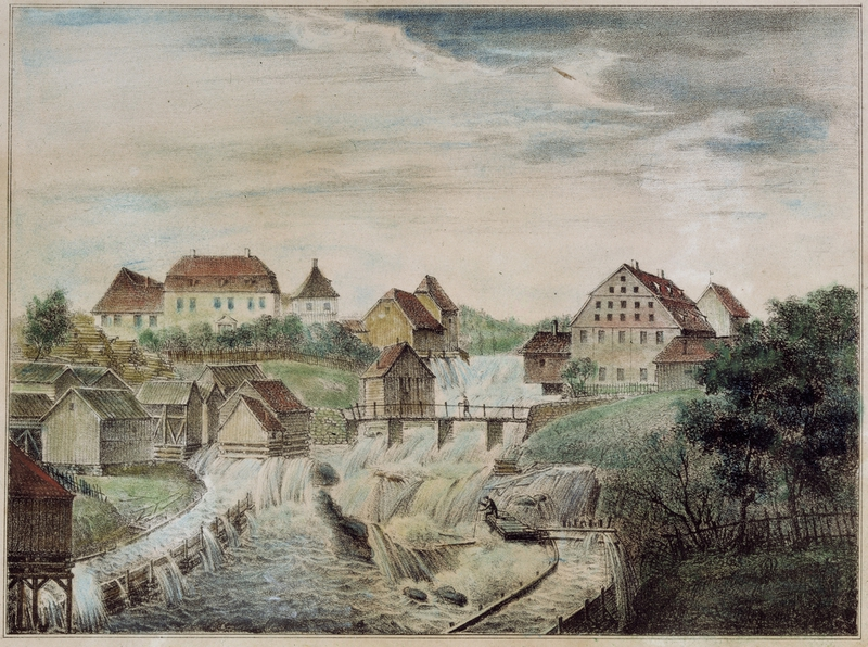 Akerselva with Glad`s Mill at Beierbrua